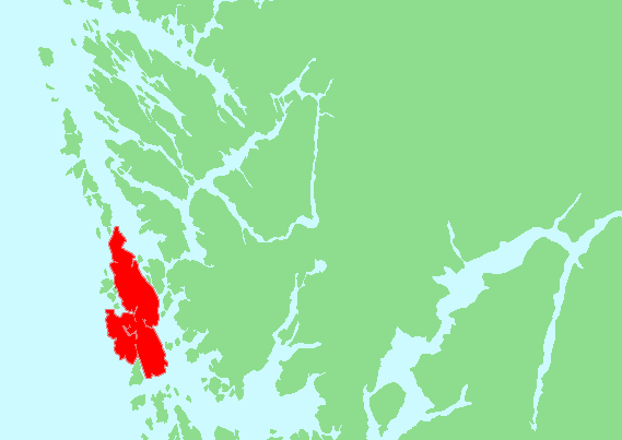 Locator map of Sotra, Norway